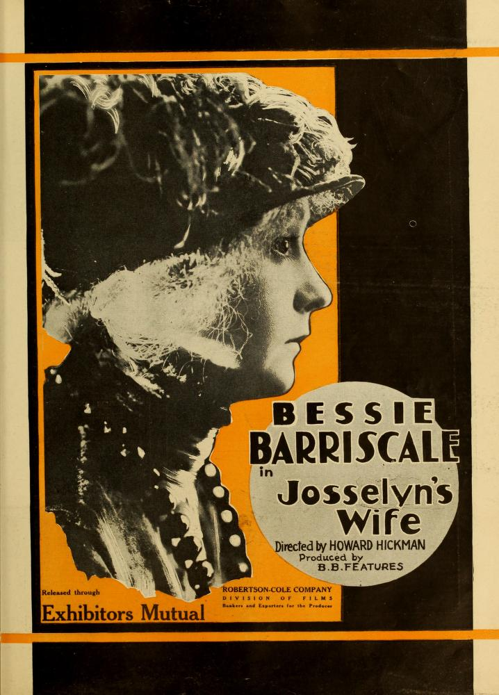 Advertisement in Moving Picture World, April 1919 for the film Josselyn's Wife (1919).